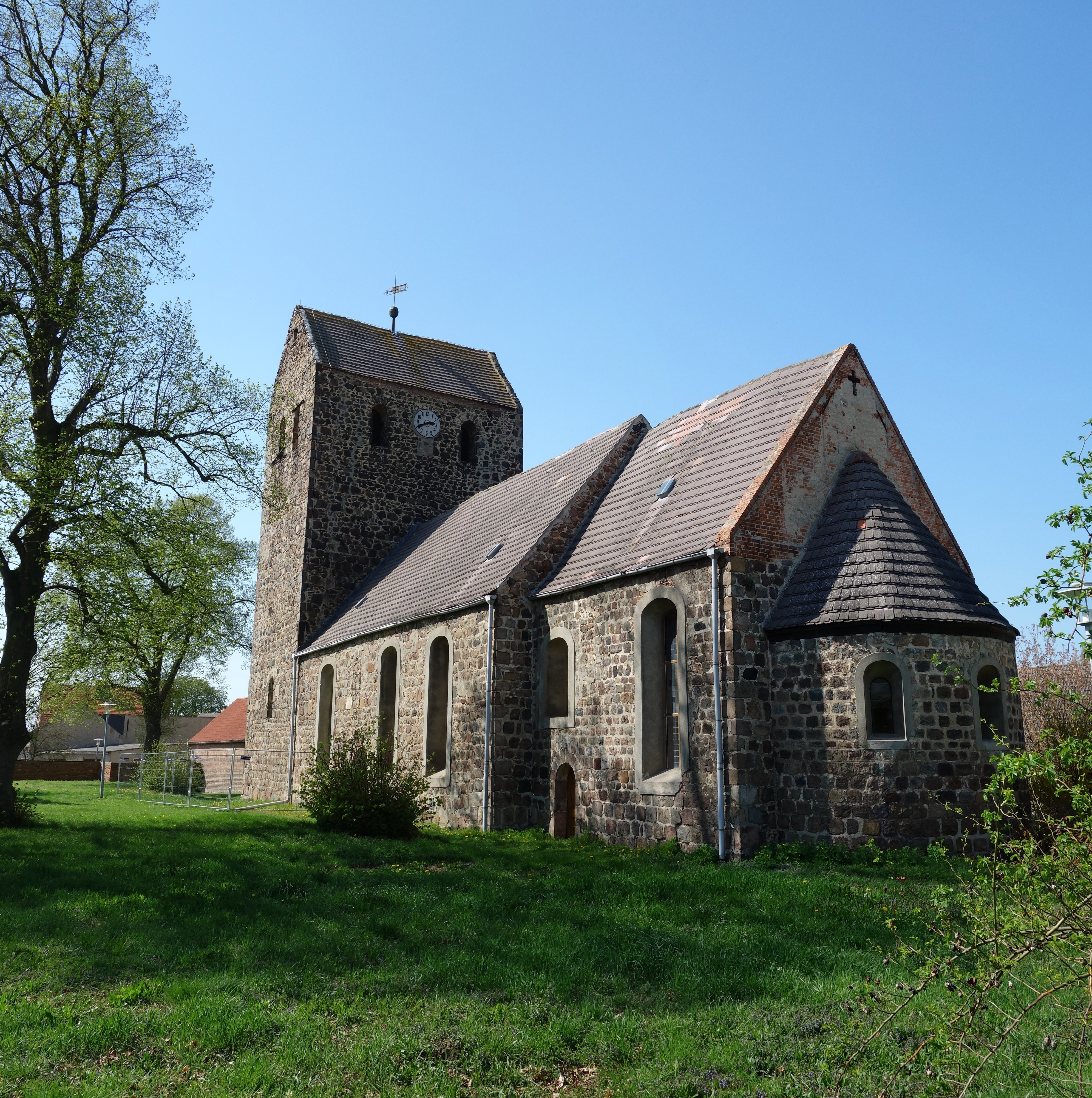 South-eastern view of the church of the Teutonic Order in Dahnsdorf , Planetal municipality, Potsdam-Mittelmark district, Brandenburg state, Germany